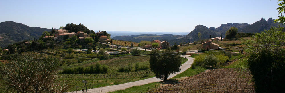 the village of Suzette, Vaucluse, France